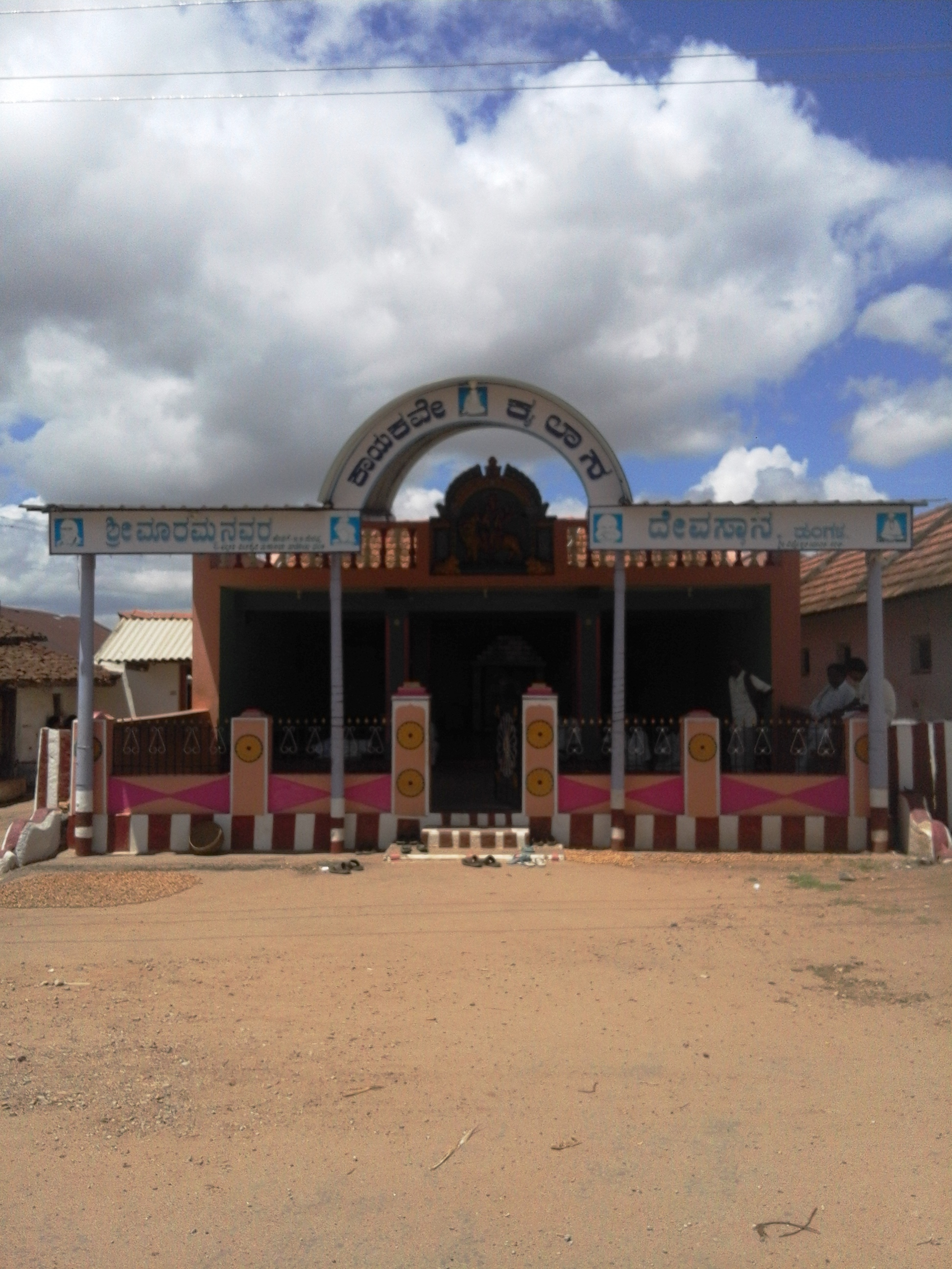 Gundllupet taluk, Chamarajanagar district, Karnataka state, India.